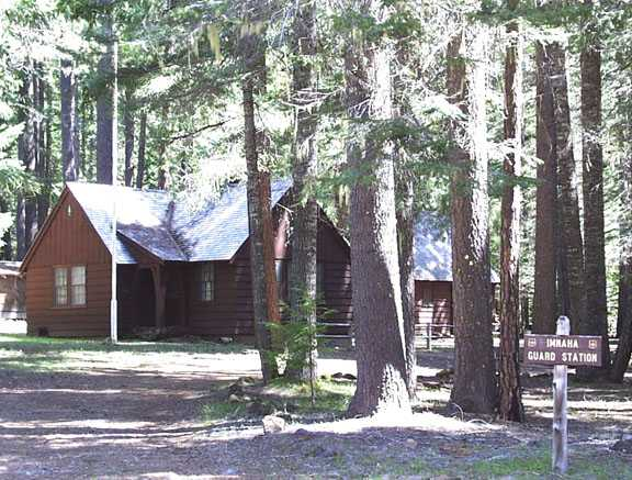 The Imnaha Guard Station in the Rogue River National Forest, in the vicinity of Butte Falls, Oregon, United States, is listed on the US National Register of Historic Places (NRHP). It is presently in use as recreational rental cabin.NRHP reference number 87000835